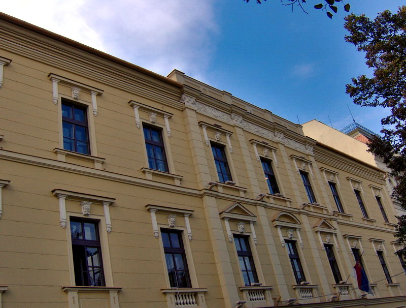 Theatre building in Zrenjanin, October 2006